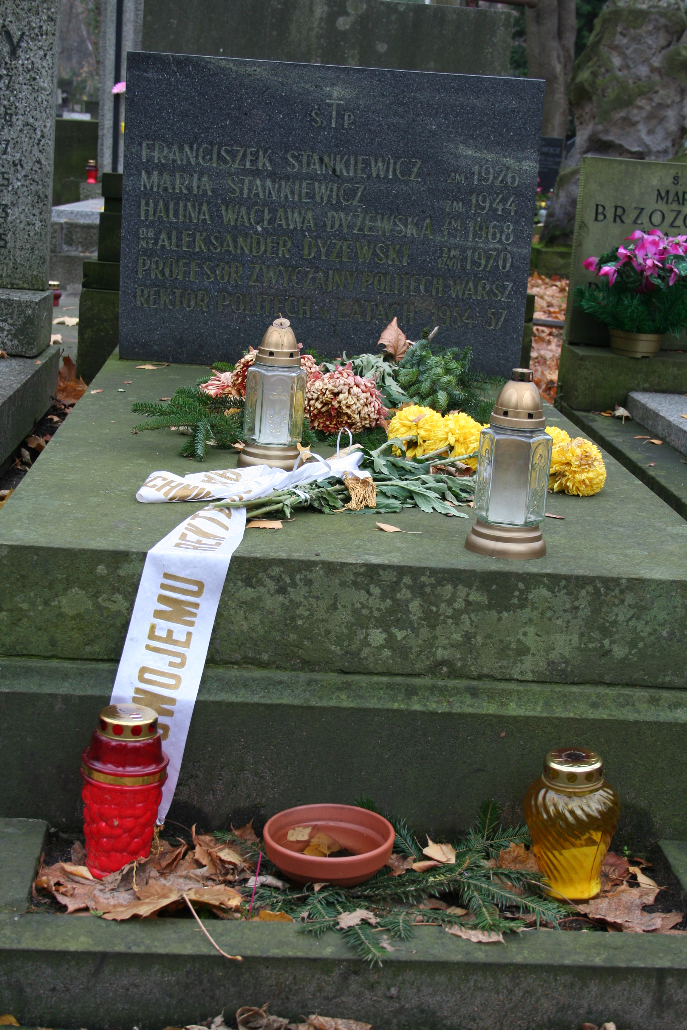 Grave of Aleksander Dyżewski at Powązki Cemetery in Warsaw, Poland